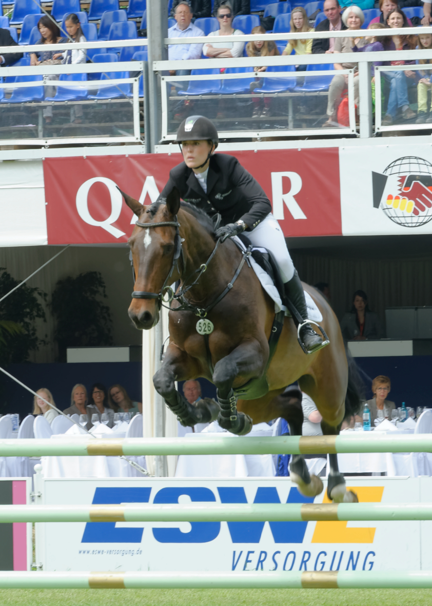 CSIYH* int. Springprüfung nach Strafpunkten und Zeit Internationales Pfingstturnier Wiesbaden 2015 The making of this document was supported by the Community-Budget of Wikimedia Germany.